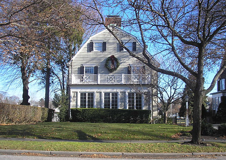 The house featured by the movie The Amityville Horror, built circa 1924, at 112 Ocean Avenue, Amityville, New York, United States. By the time this photograph was taken, the address had been changed to discourage curiousity-seekers.